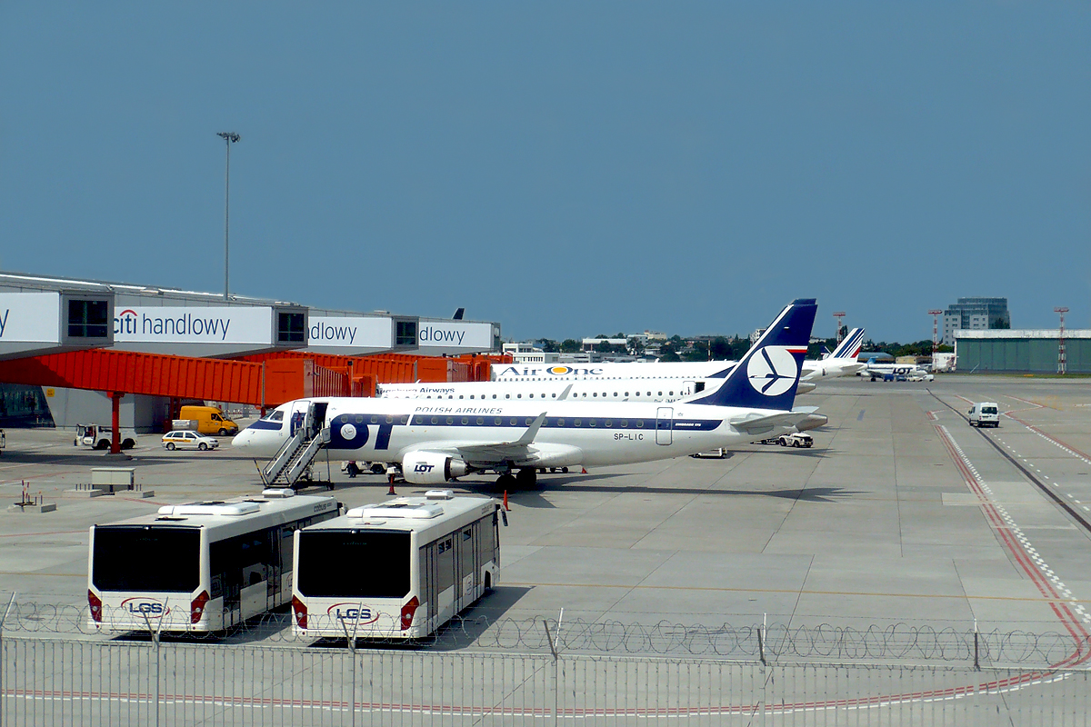 Aircrafts stand at Warsaw Frideric Chopin Airport, Warsaw, Poland.